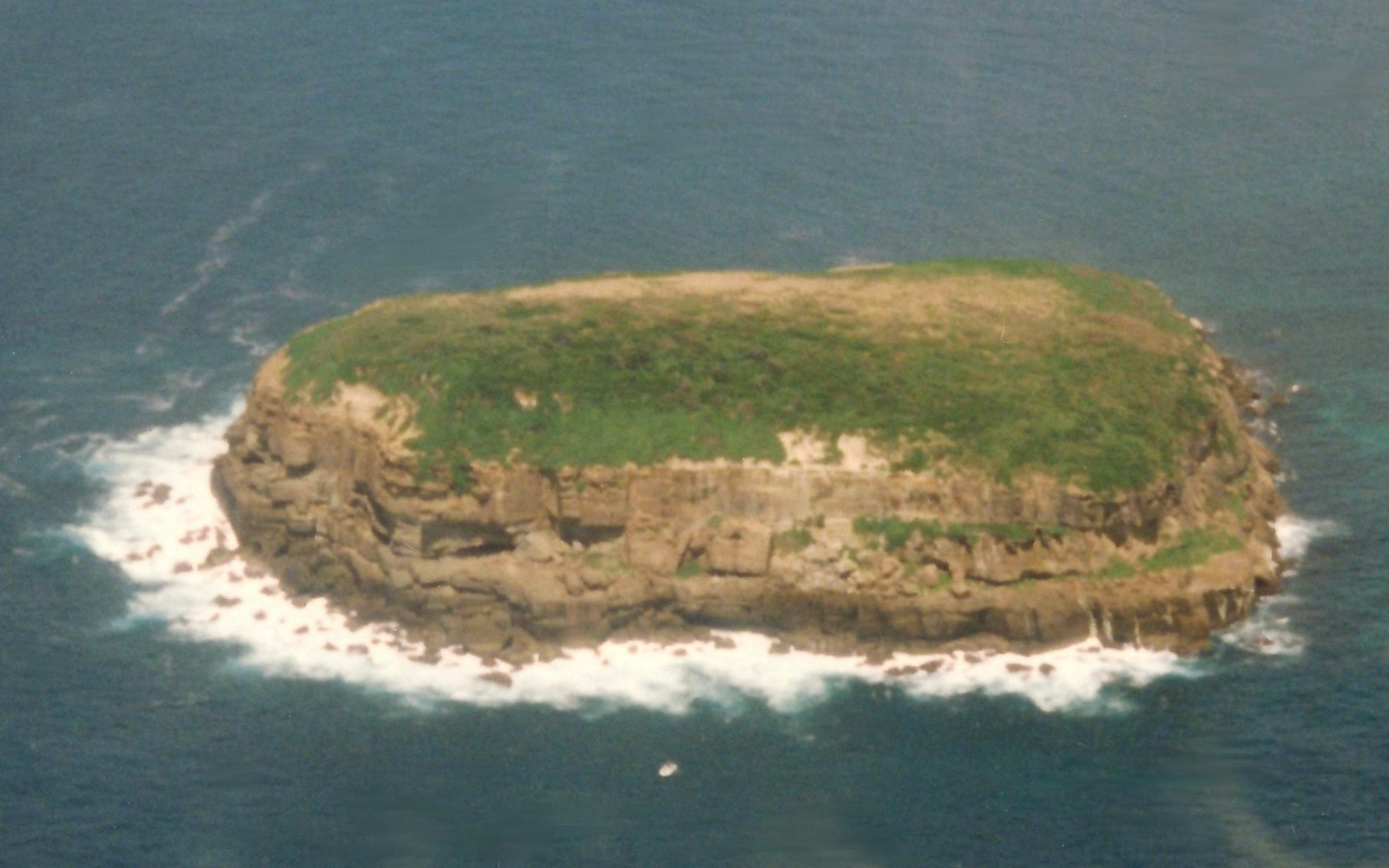 Bird Island NSW Central Coast, Aerial view 14-1-1996. location: -33.2295, 151.602333